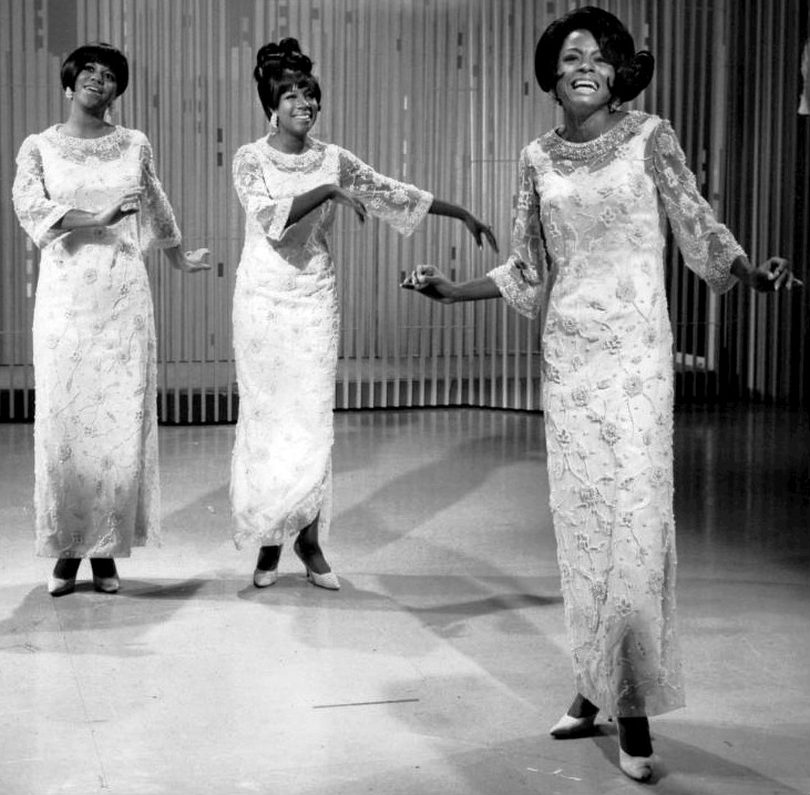 Publicity photo of The Supremes from The Ed Sullivan Show, Feb. 20, 1966. They are performing My World Is Empty Without You. L-R: Florence Ballard, Mary Wilson, and Diana Ross